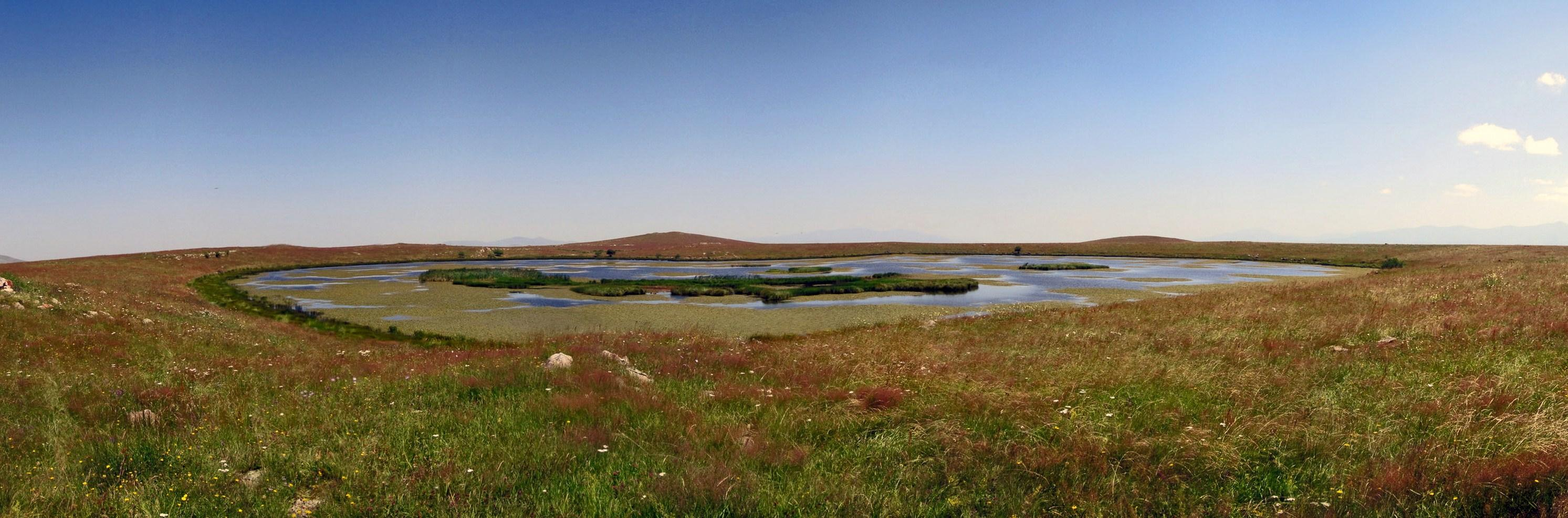 Lori Plain, lake Attik, Armenia